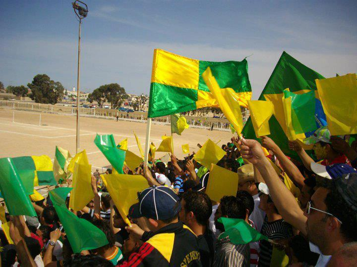 METOUIA